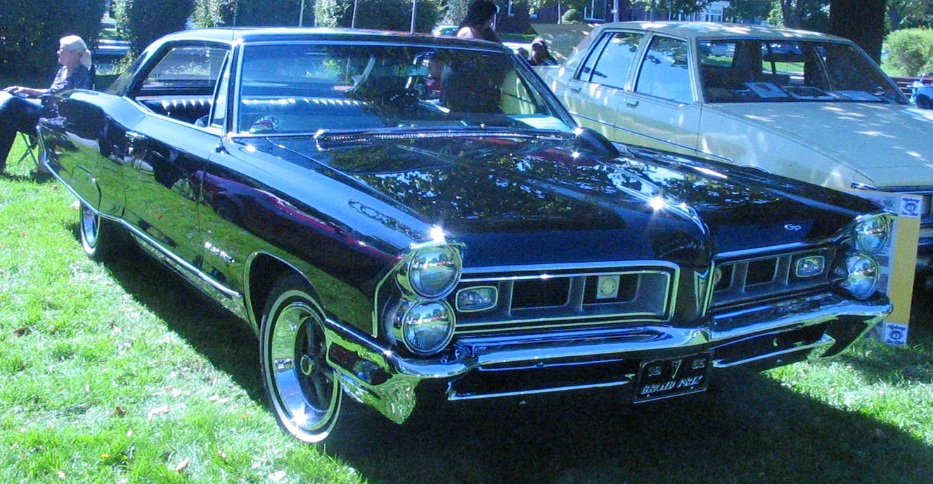 1965 Pontiac Grand Prix photographed in Salaberry-De-Valleyfield, Quebec, Canada at Auto antique Salaberry-De-Valleyfield 2011.